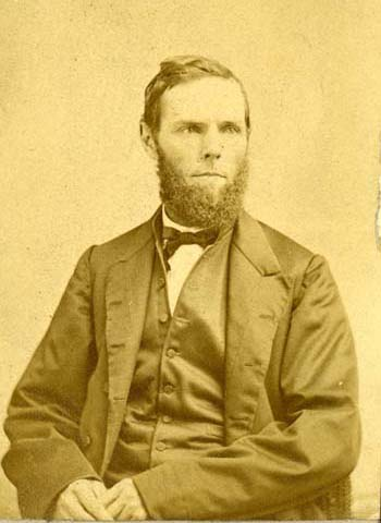 Alonzo Linn graduated from Jefferson College in 1849. He became a professor at Jefferson College in 1857, teaching Greek, political economy, history, and ancient languages. He was later vice president of Washington & Jefferson College and served both colleges for 44 years.